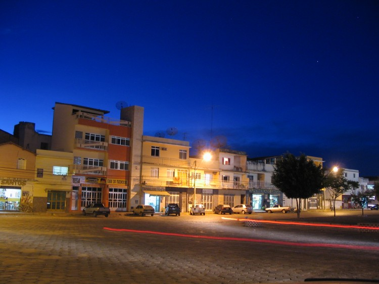 Cacule, Bahia, Brazil - Praça do Mercado (Market Square)